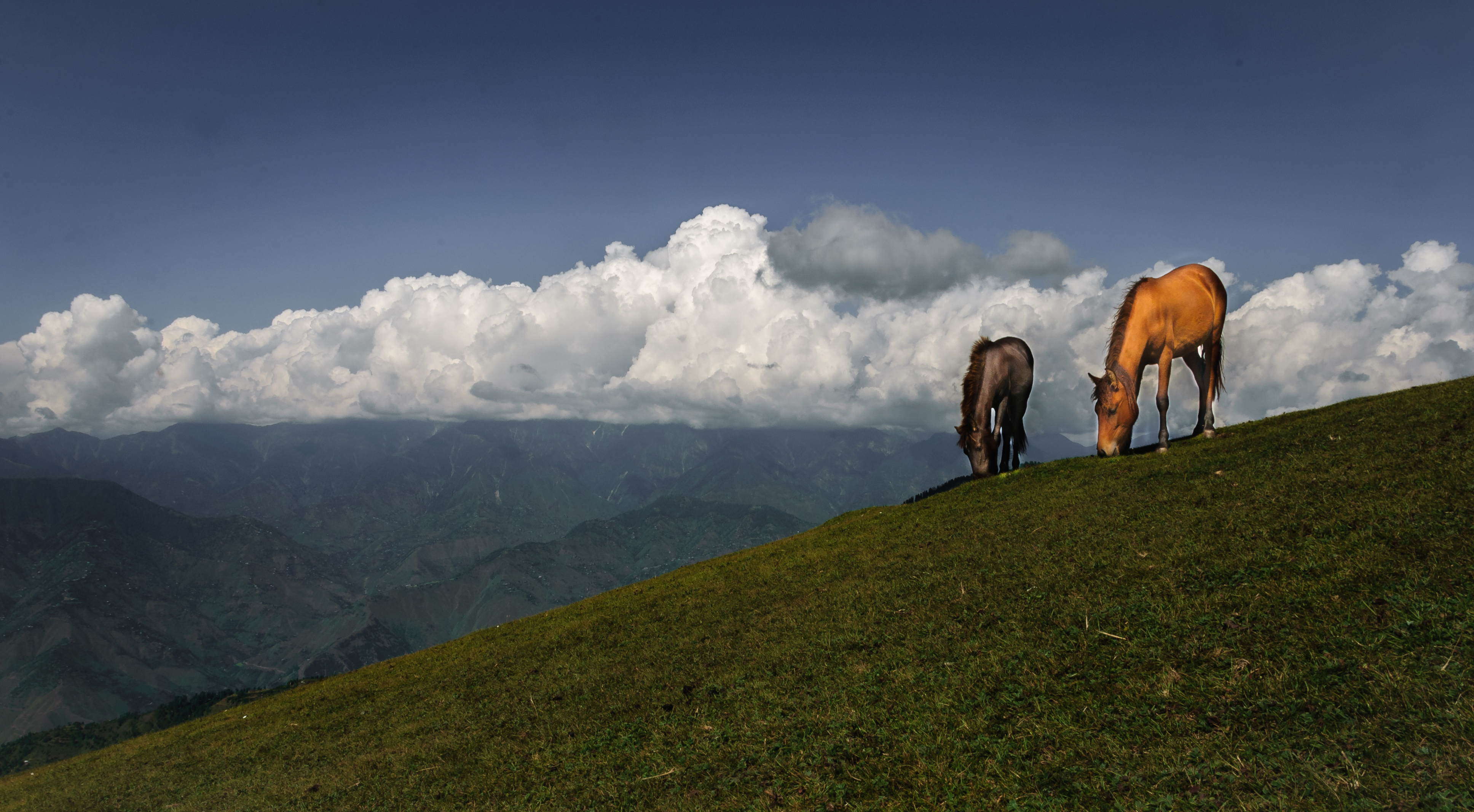 Pir Chinasi (Pir Shah Hussain Bukhari's shrine) This is a photo of a monument in Pakistan identified as the AJK-17